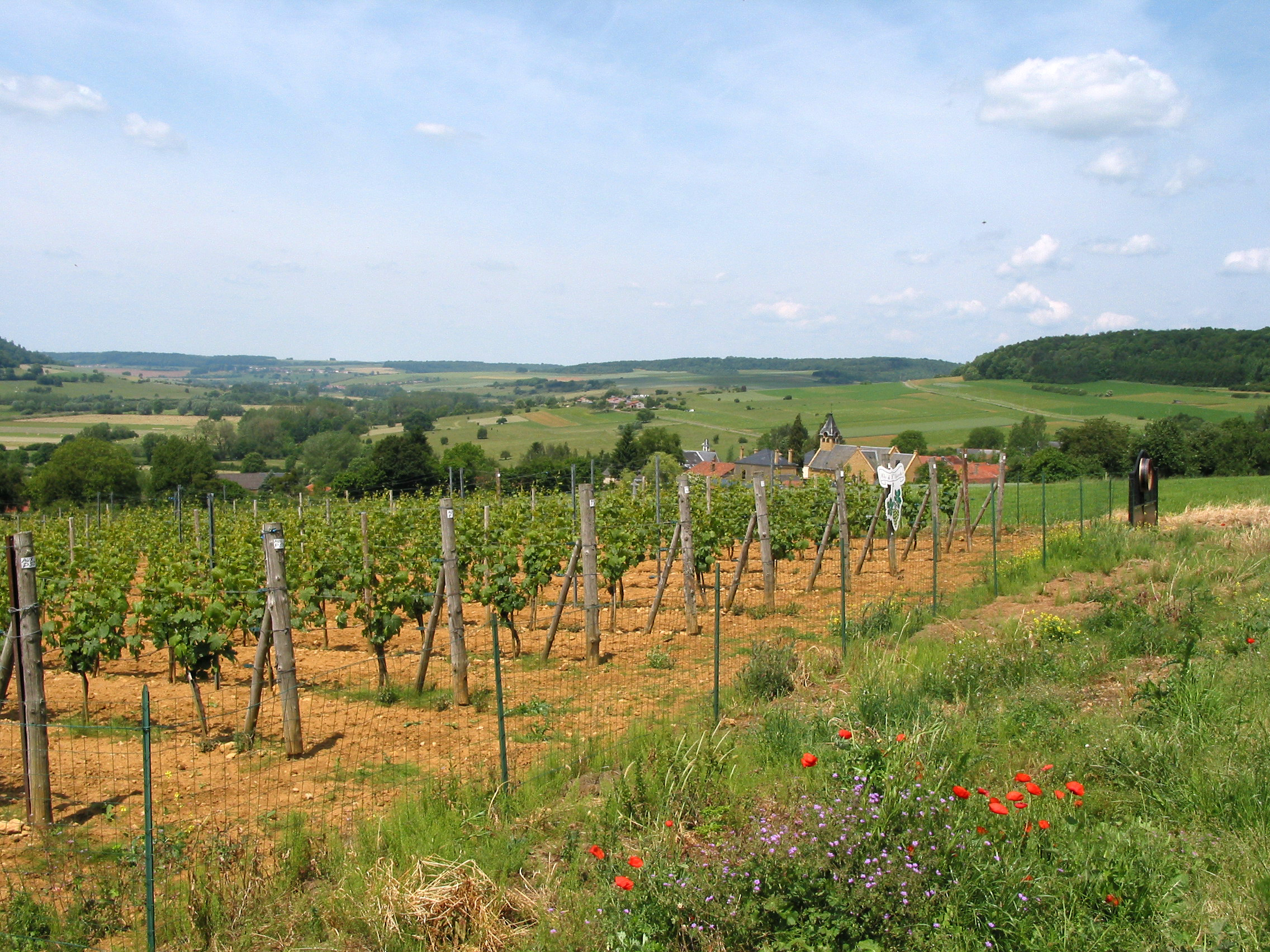 Torgny (Belgium), a grape field of the village.